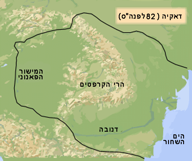 translation of File:Dacia 82 BC.png